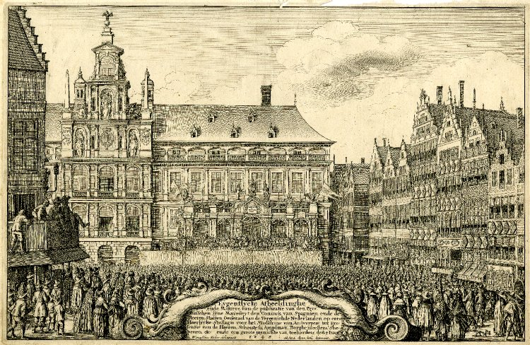 The Peace of Munster, view of the square in front of Antwerp Town Hall, with crowds gathered to listen to the proclamation ("Eÿgentlycke Afbeeldinghe ende Maniere van de publicatie van den Peys ... den 5 Iunÿ 1648"). Etching. Dated 1648, by the Czech-English artist and printmaker Wenceslaus Hollar. 220 mm x 338 mm. Courtesy of the British Museum, London.